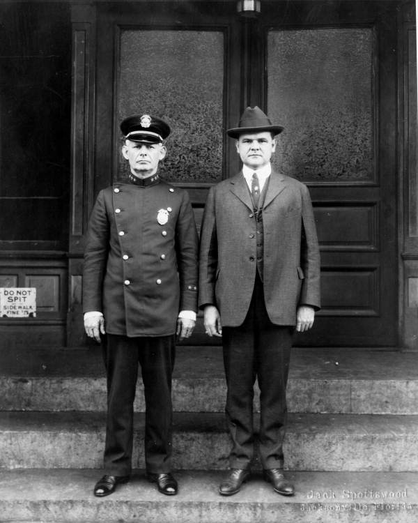 Photo of Mayor John Martin and Police Chief A.J. Roberts of Jacksonville